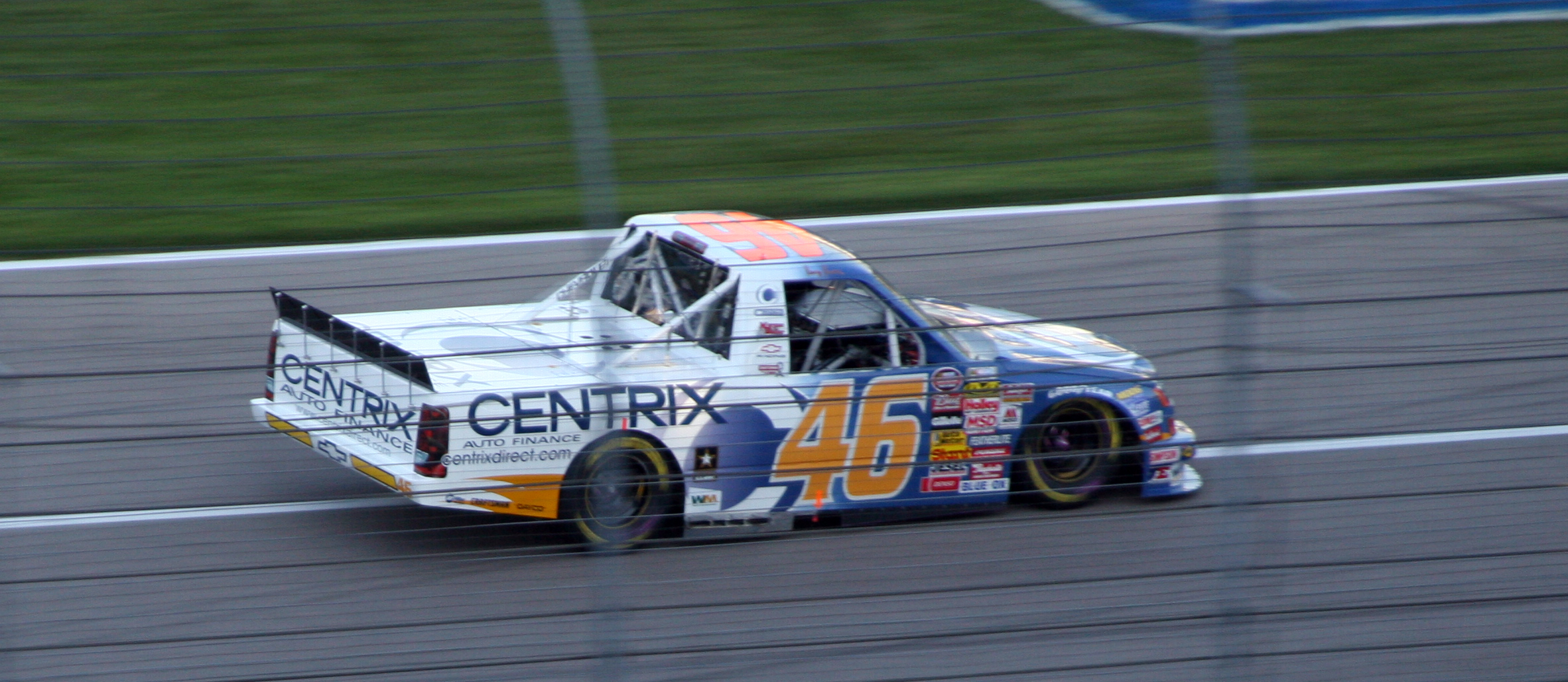 Kraig Kinser at Texas Motor Speedway qualifying on June 8, 2006. Image was tagged Attribution-ShareAlike 2.0 by flickr contributor sidehike. The original image can be found here